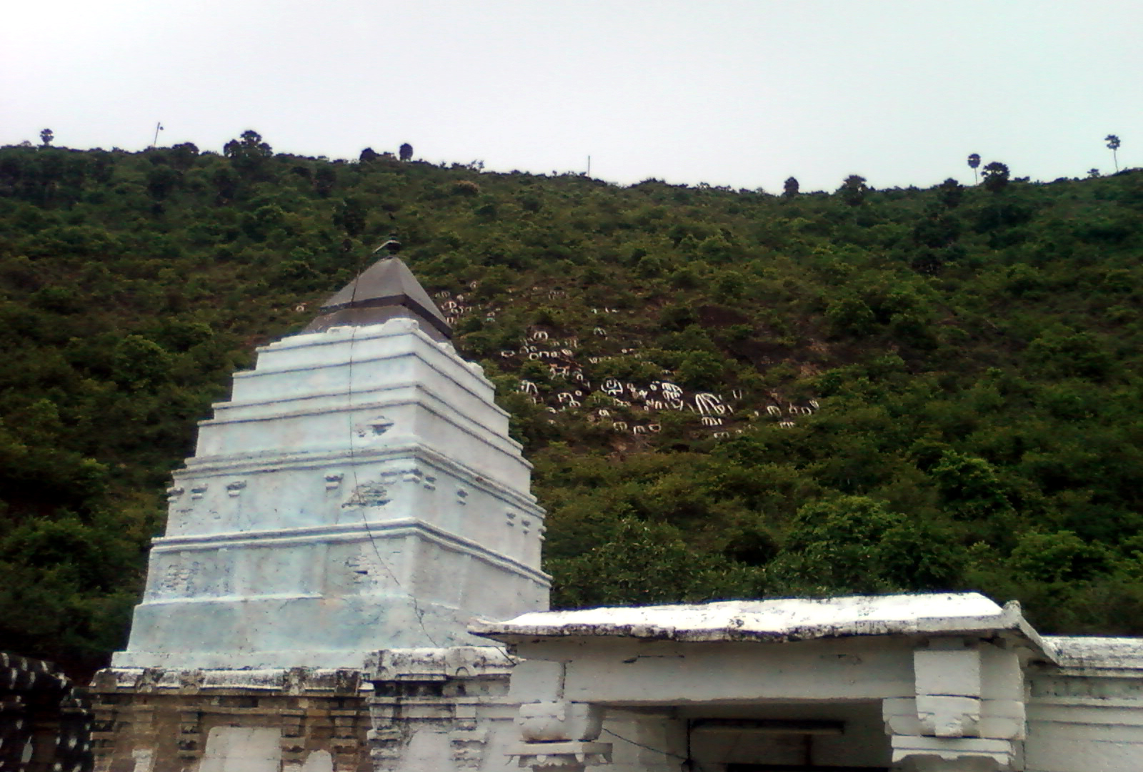 Dharalingeshwara temple at Panchadharla, Dharapalem in Visakhapatnam district